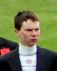 Joseph O'Brien preparing for the biggest day of his career